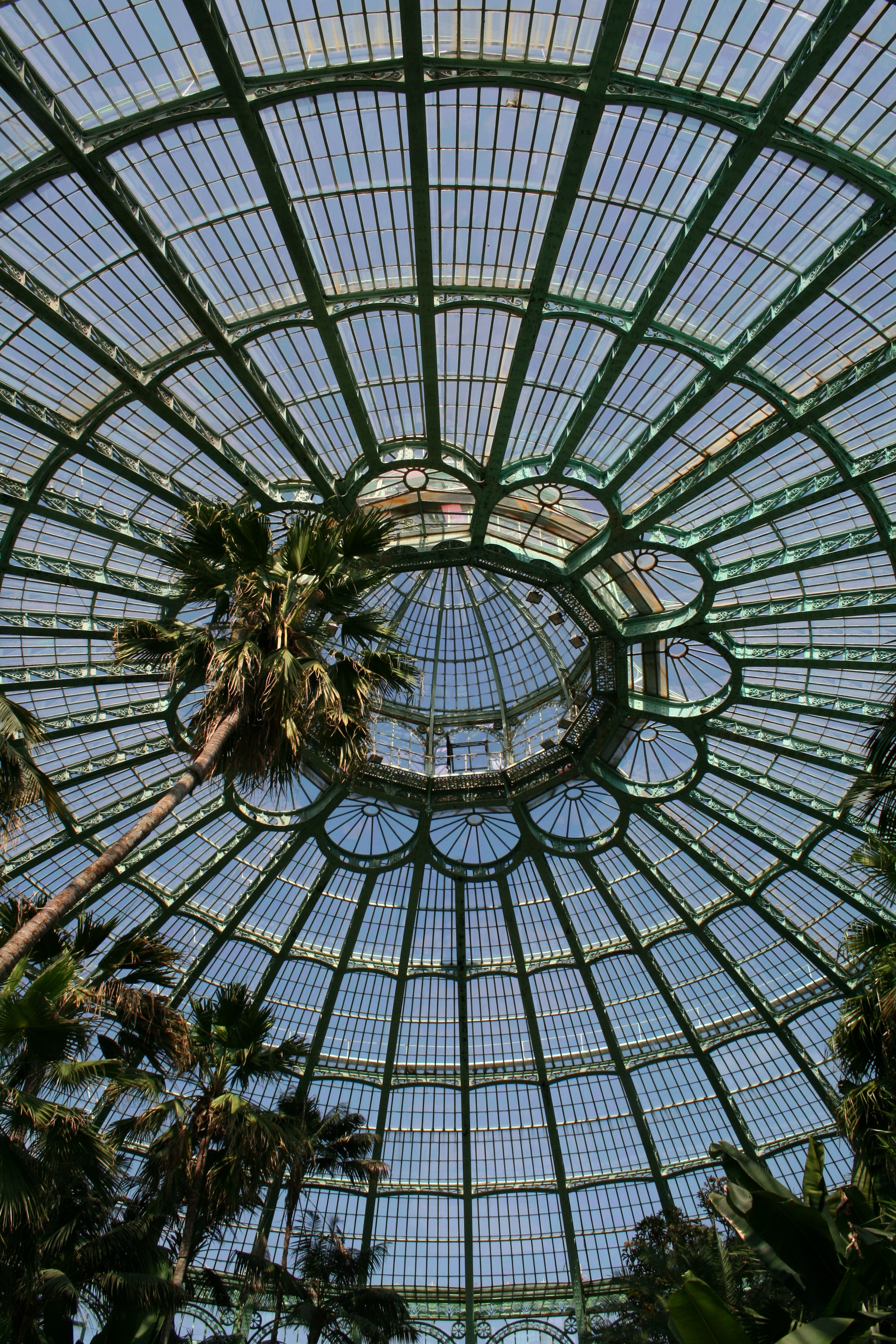 Laeken (Belgium), internal view of the big greenhouse dome so called "Jardins d'hiver" which is part of the Royal Greenhouses of Alphonse Balat (1874-1890).